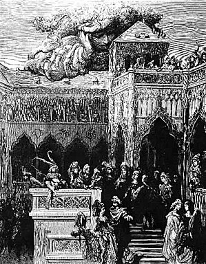 Gustave Doré's illustration to Abbey of Thélème